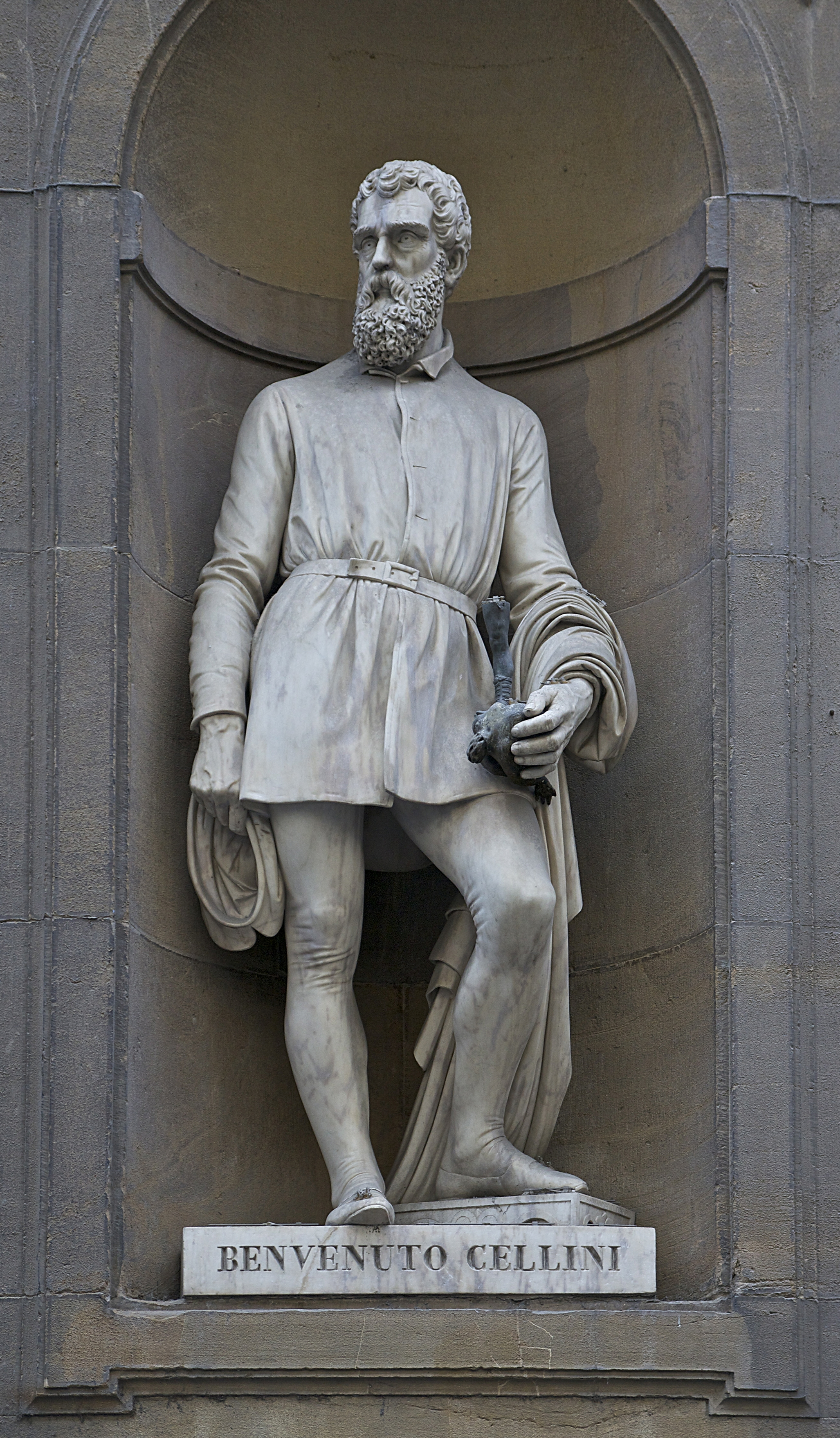 Statue of Benvenuto Cellini, Piazzale degli Uffizi, Florence, Italy.